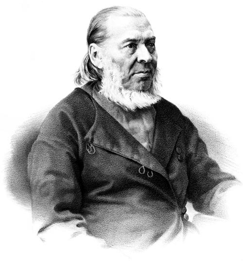 Sergei Aksakov (1791-1859), russian writer